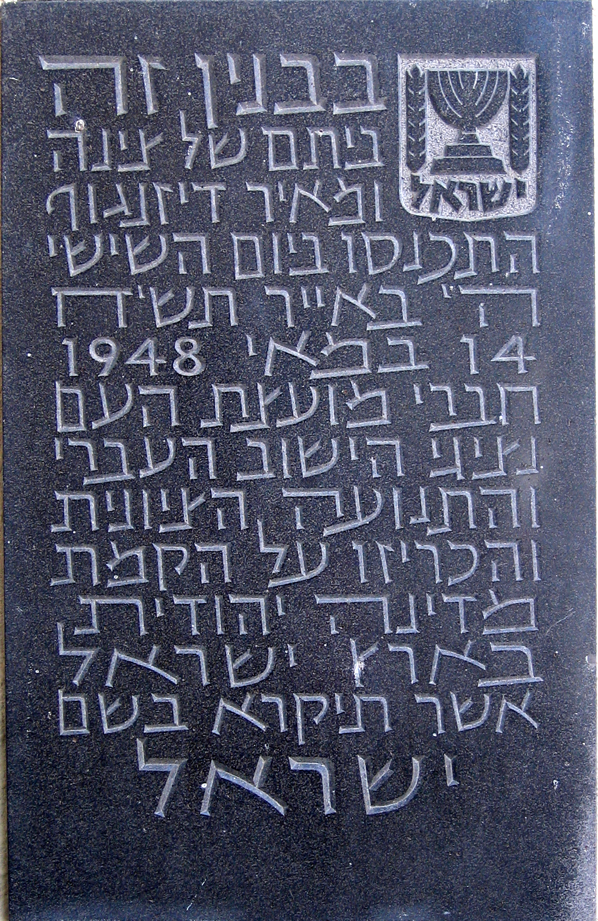 Plaque referencing Israel's Declaration of Independence on 14.5.1948